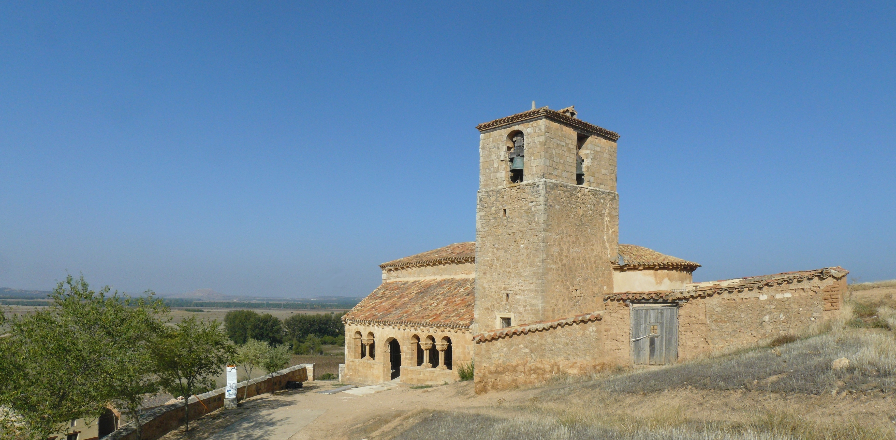 View of the Romanesque church of San Martín, Aguilera, Soria (Spain). At back the huge castle of Gormaz can be seen in the distance.